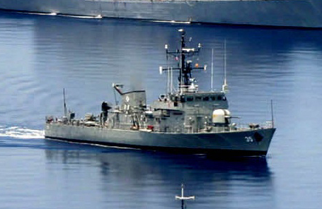 050822-N-6264C-145 Sulu Sea (Aug. 22, 2005) – A combined U.S. Navy and Philippine Navy task group underway during the at-sea phase of exercise Cooperation Afloat Readiness and Training (CARAT) in the Philippines. CARAT is an annual series of bilateral military training exercises with several Southeast Asian nations designed to enhance the interoperability of the respective sea services. - photo edited, zoomed on BRP Emilio Jacinto (PS-35)